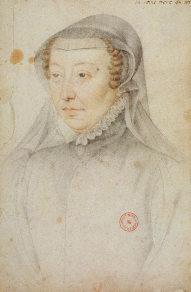 Catherine de' Medici, daughter of Lorenzo II de' Medici, consort to Henry II of France, mother of Francis II of France, Charles IX of France, Henry III of France, Elisabeth, queen of Spain and Marguerite, queen of Navarre.